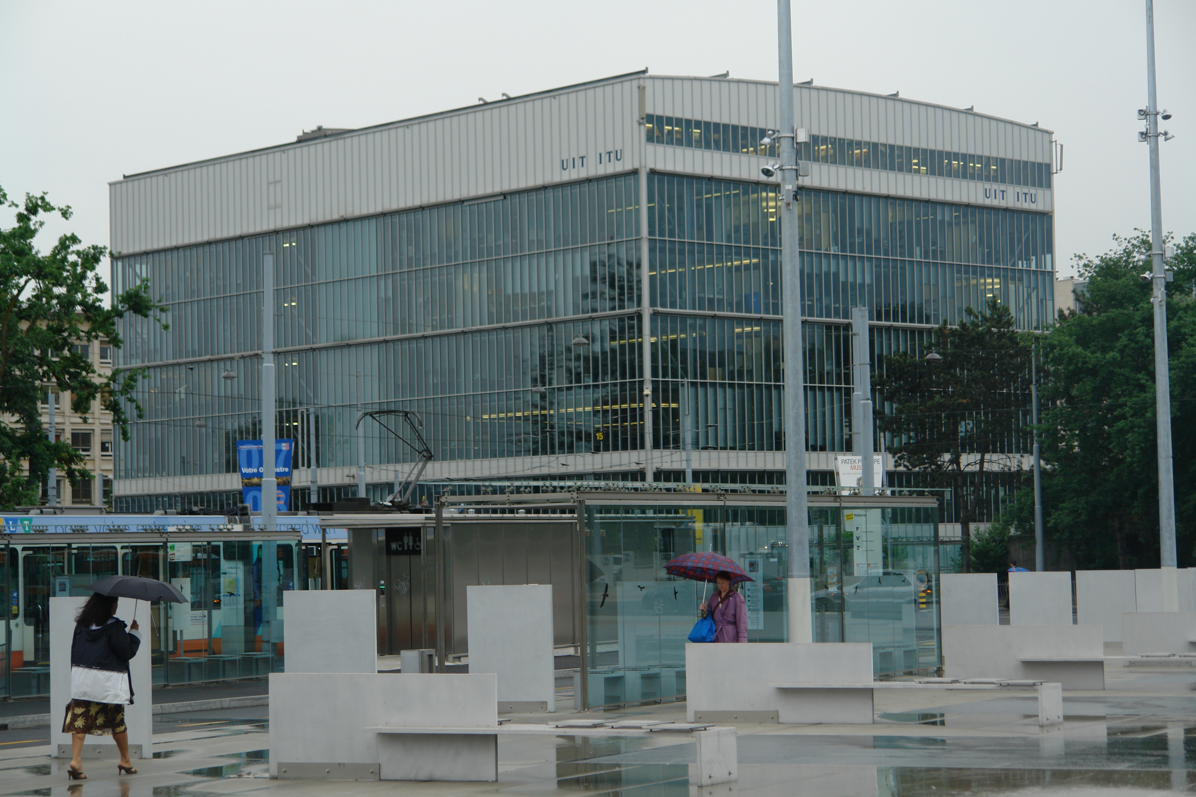 International Telecommunications Union, Geneva.